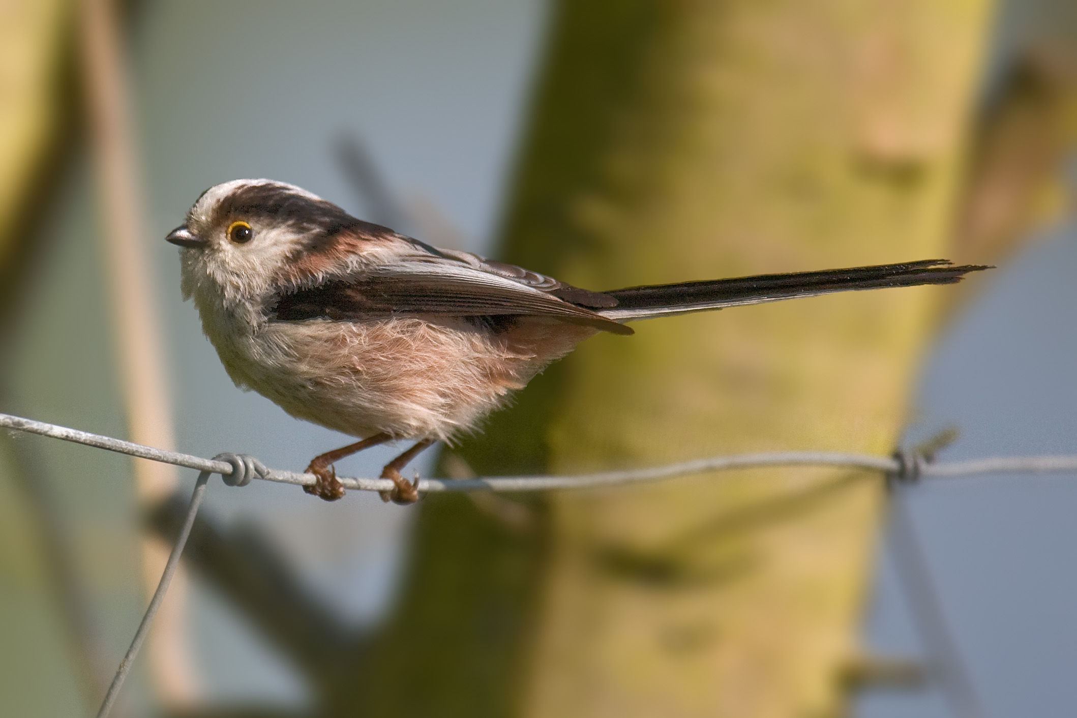 Long-tailed Tit